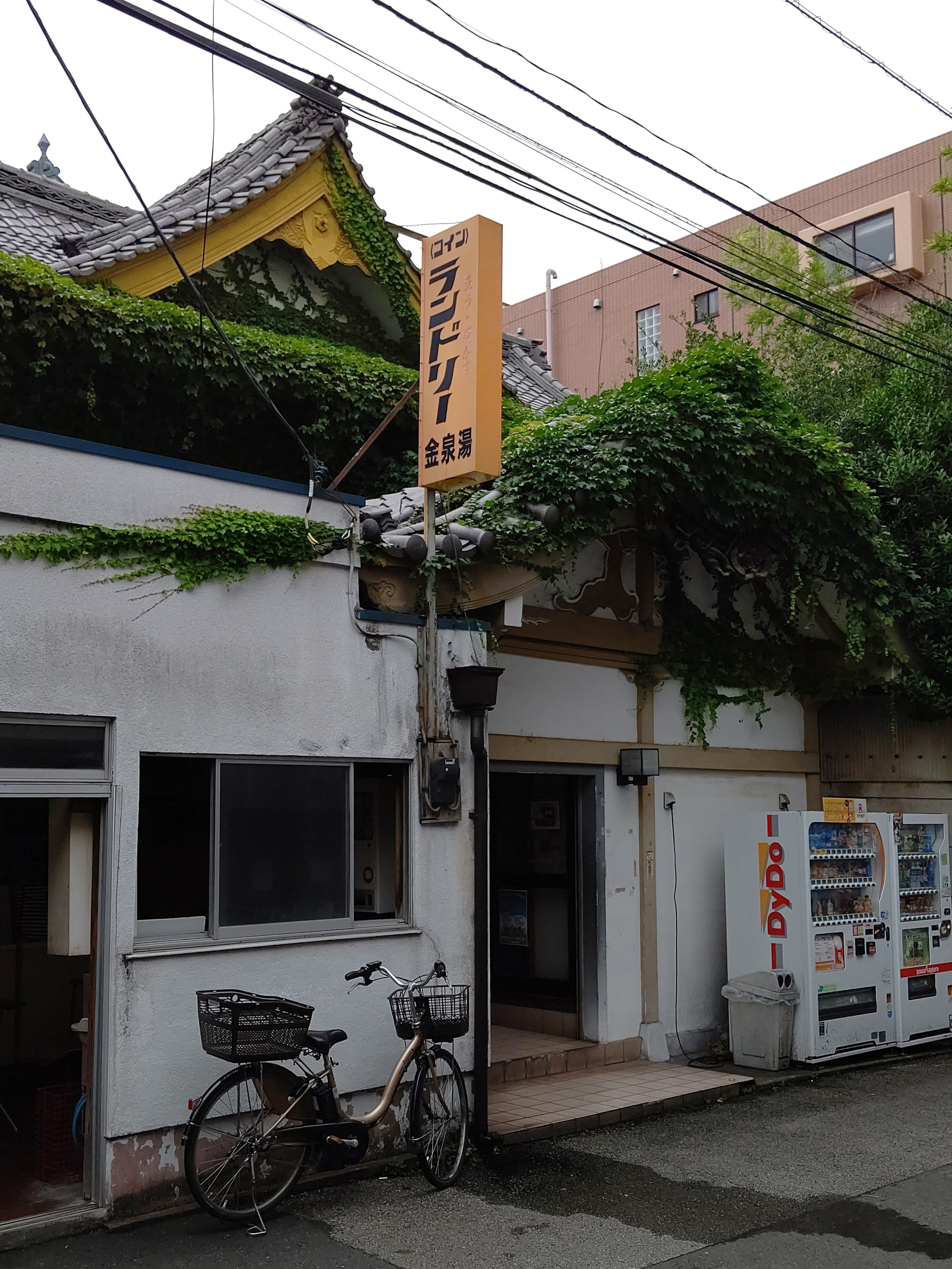 東京都新宿区西早稲田2丁目にある金泉湯。